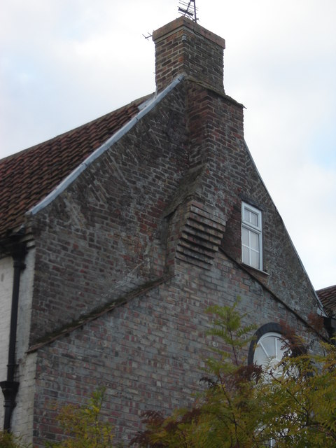 Unusual house chimney, Bainton, East Riding of Yorkshire, England.This old house is opposite Bainton Church, is this design a one off?